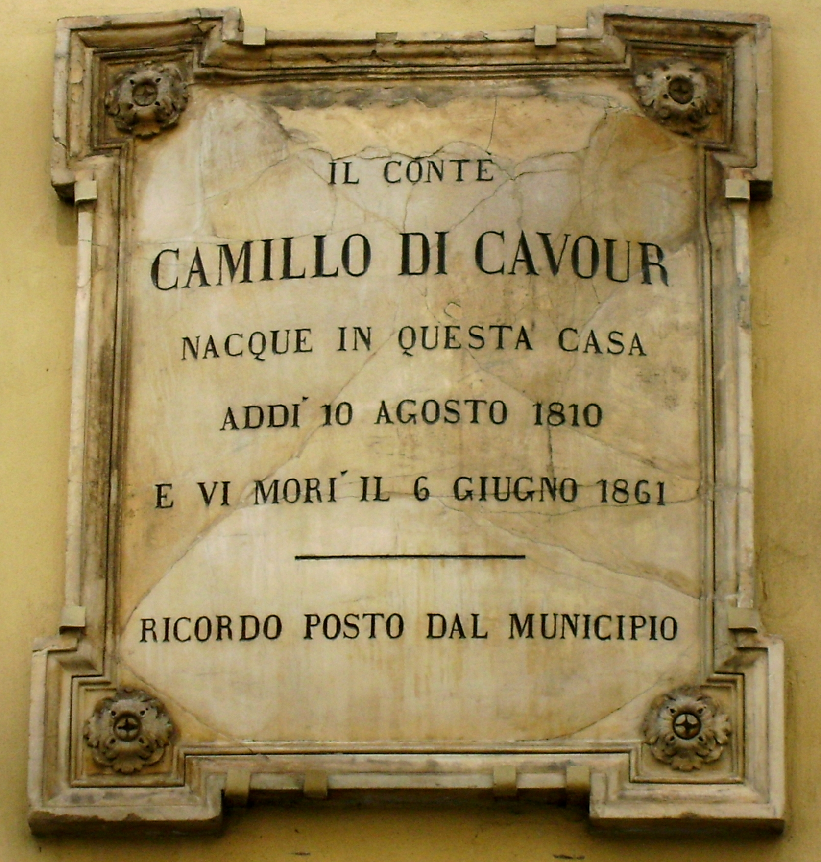 Plaque on Cavour's family palace in Turin (Italy)